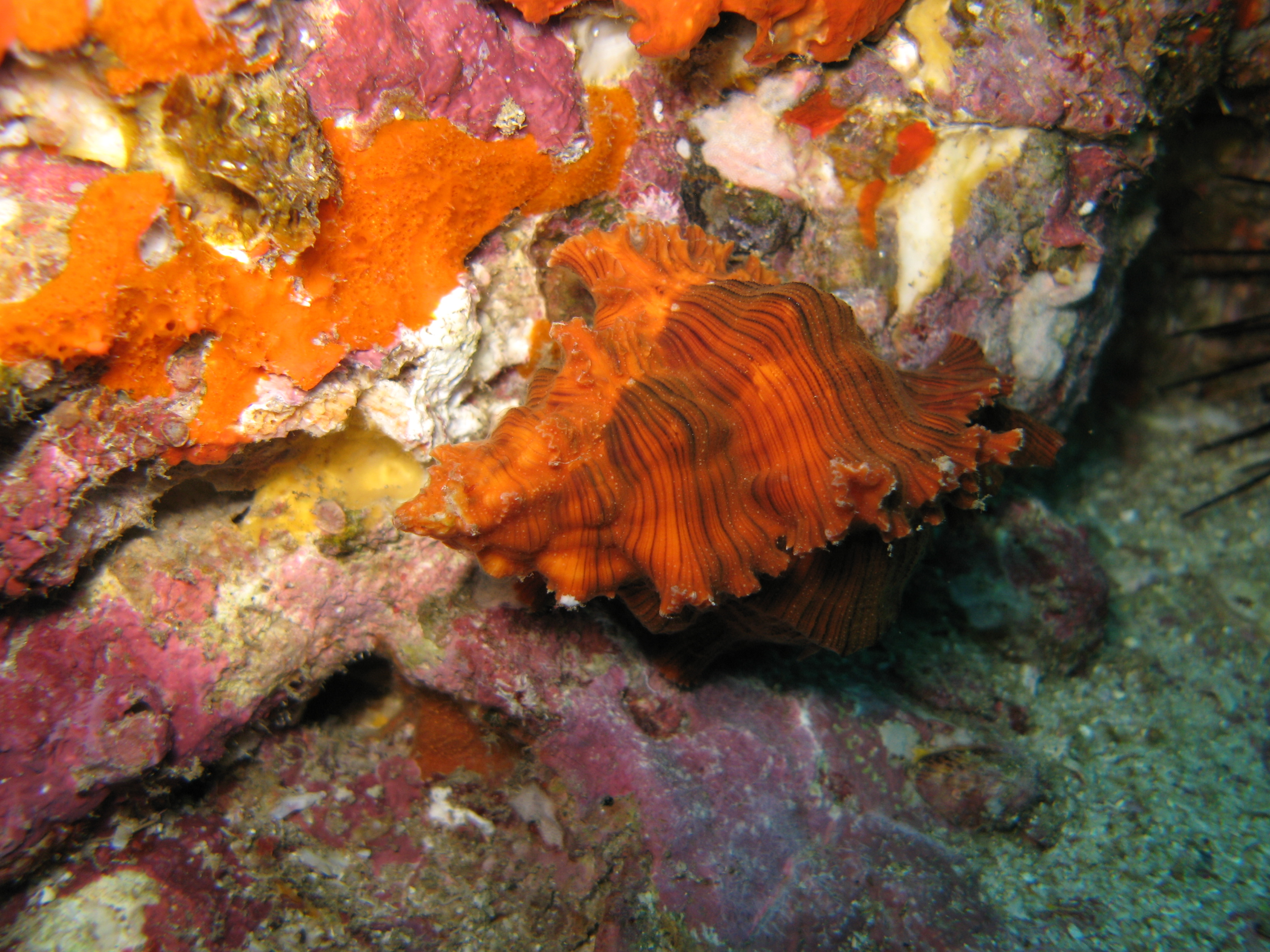 Chicoreus (Triplex) microphyllus (Lamarck, 1816) ; Thailand, Andaman Sea, February 2008